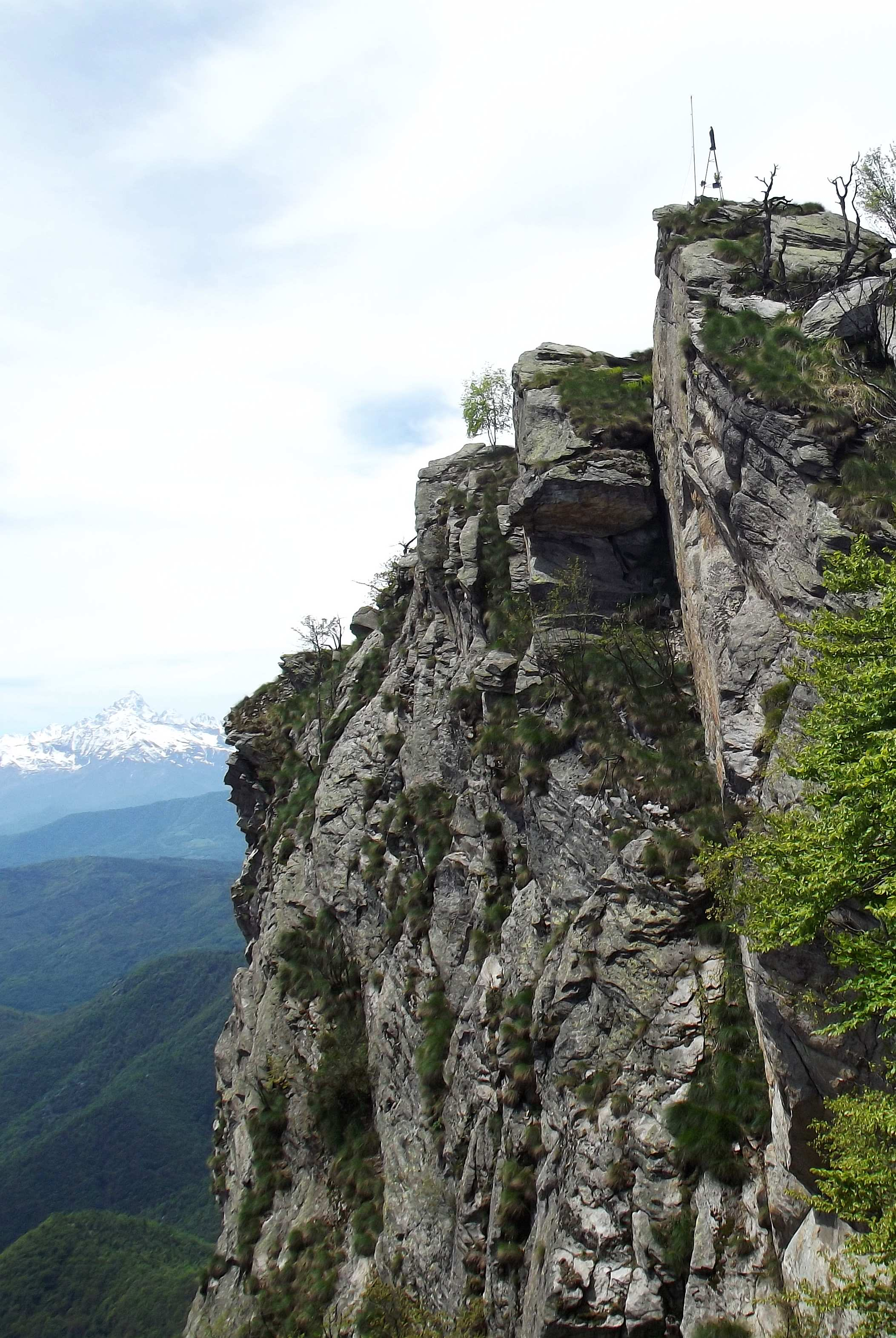 Monte Tre Denti (TO, Italy): western summit (on the left the Monviso)